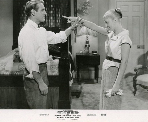 Paul Newman and Joanne Woodward in "The Long, Hot Summer"